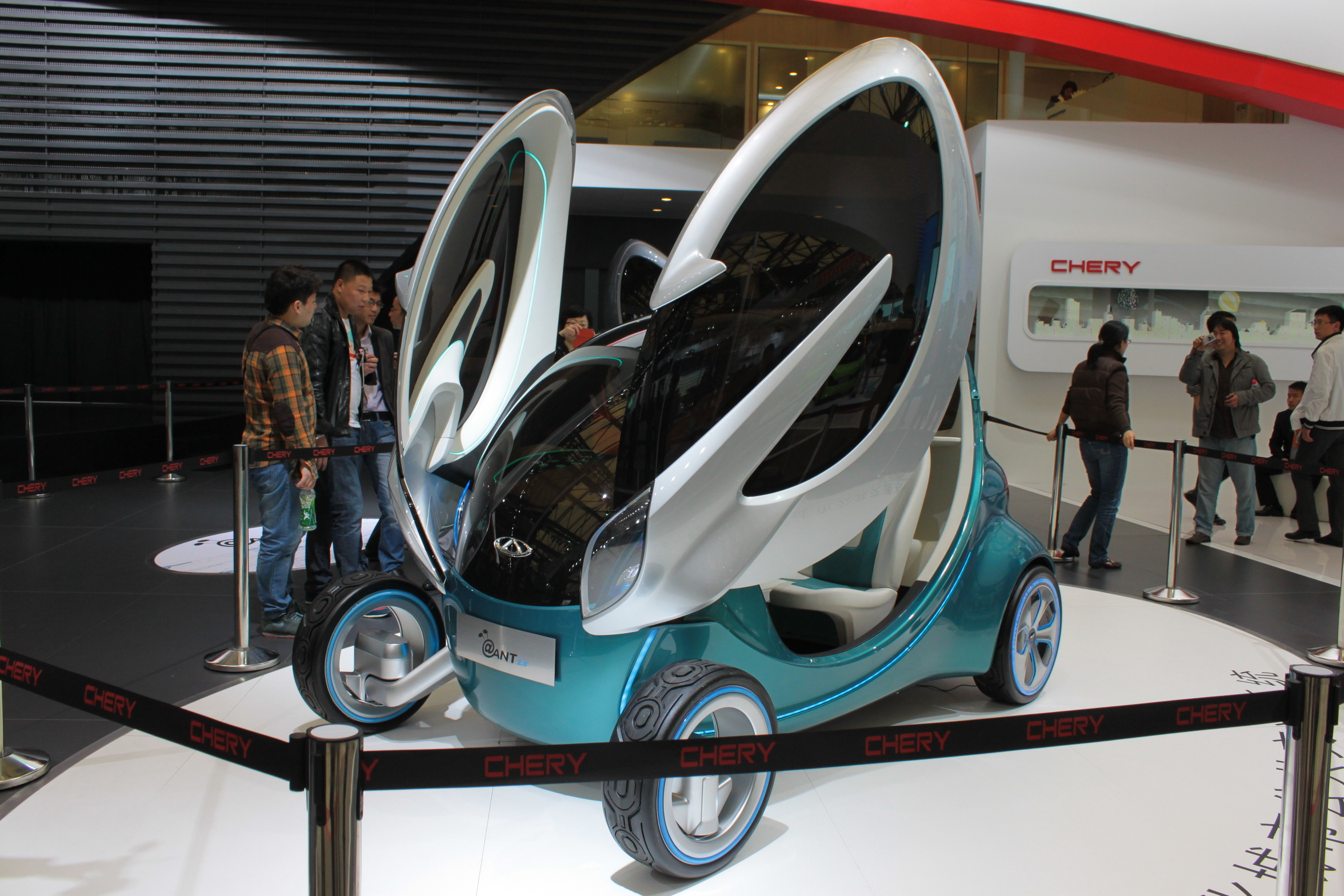 Chery Ant 2.0 concept car at Auto Shanghai 2013